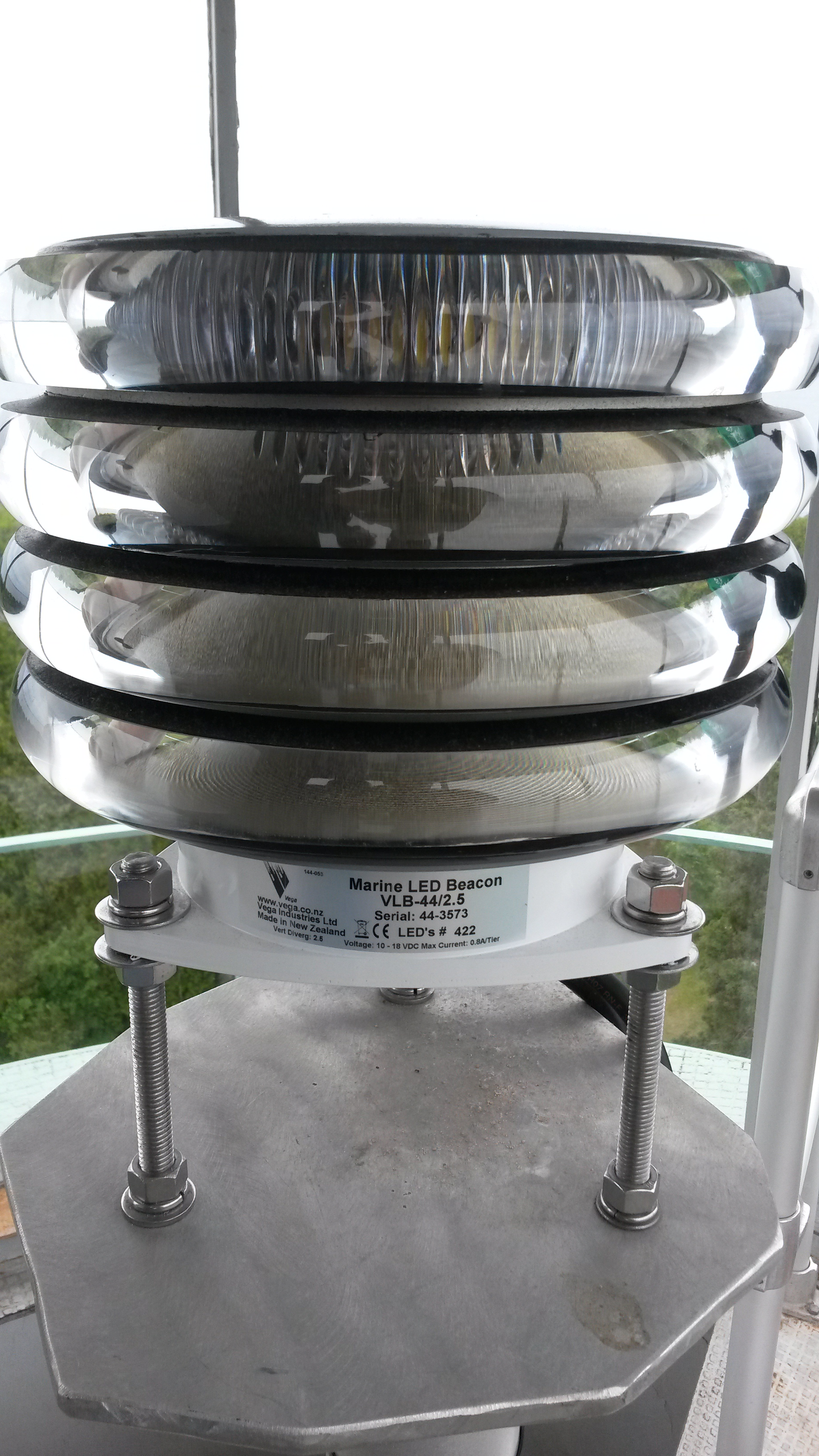 Seul Choix Lighthouse beacon, Michigan. Photo taken in the lantern room of the lighthouse.